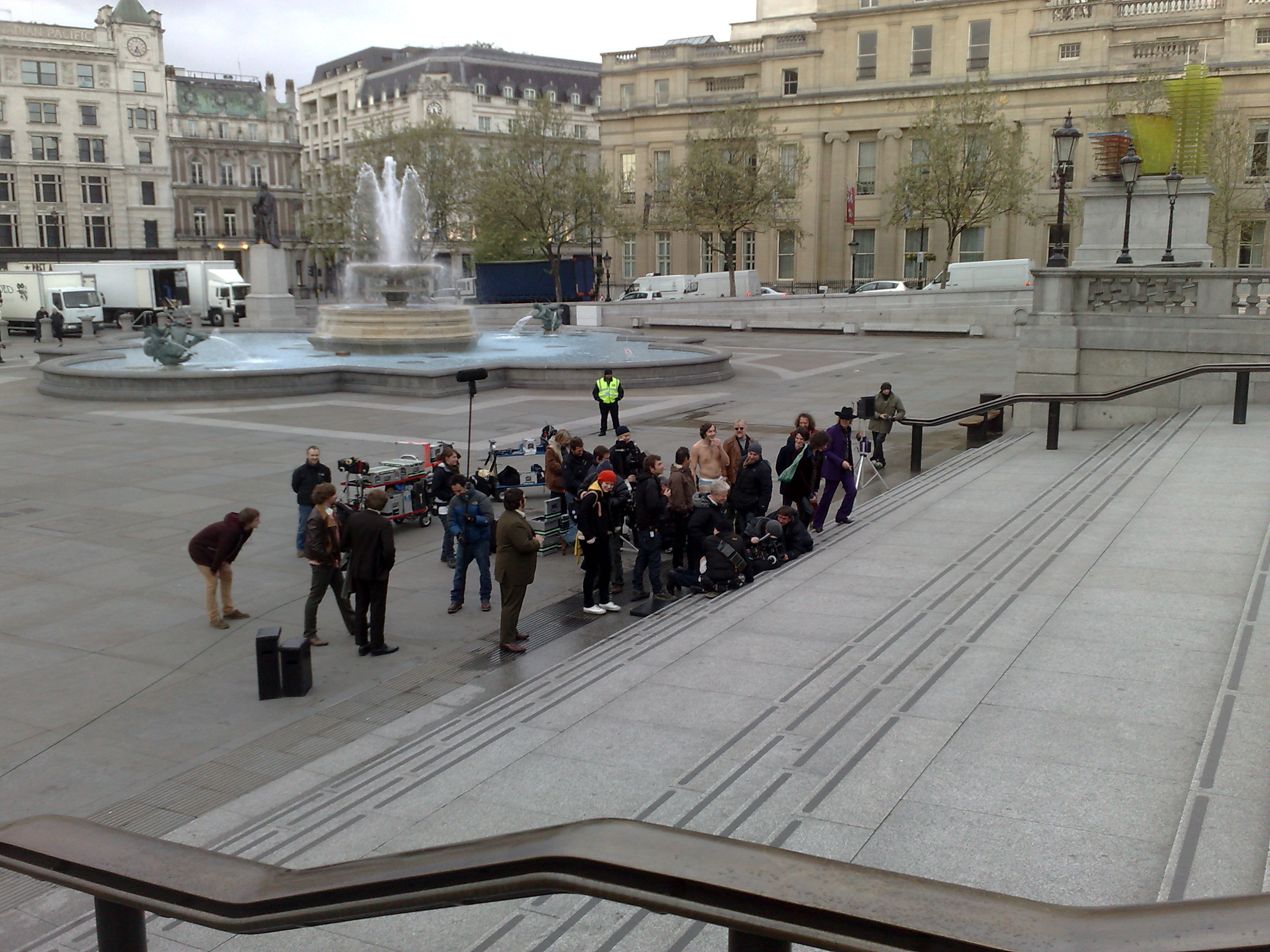 The boat that rocked filming